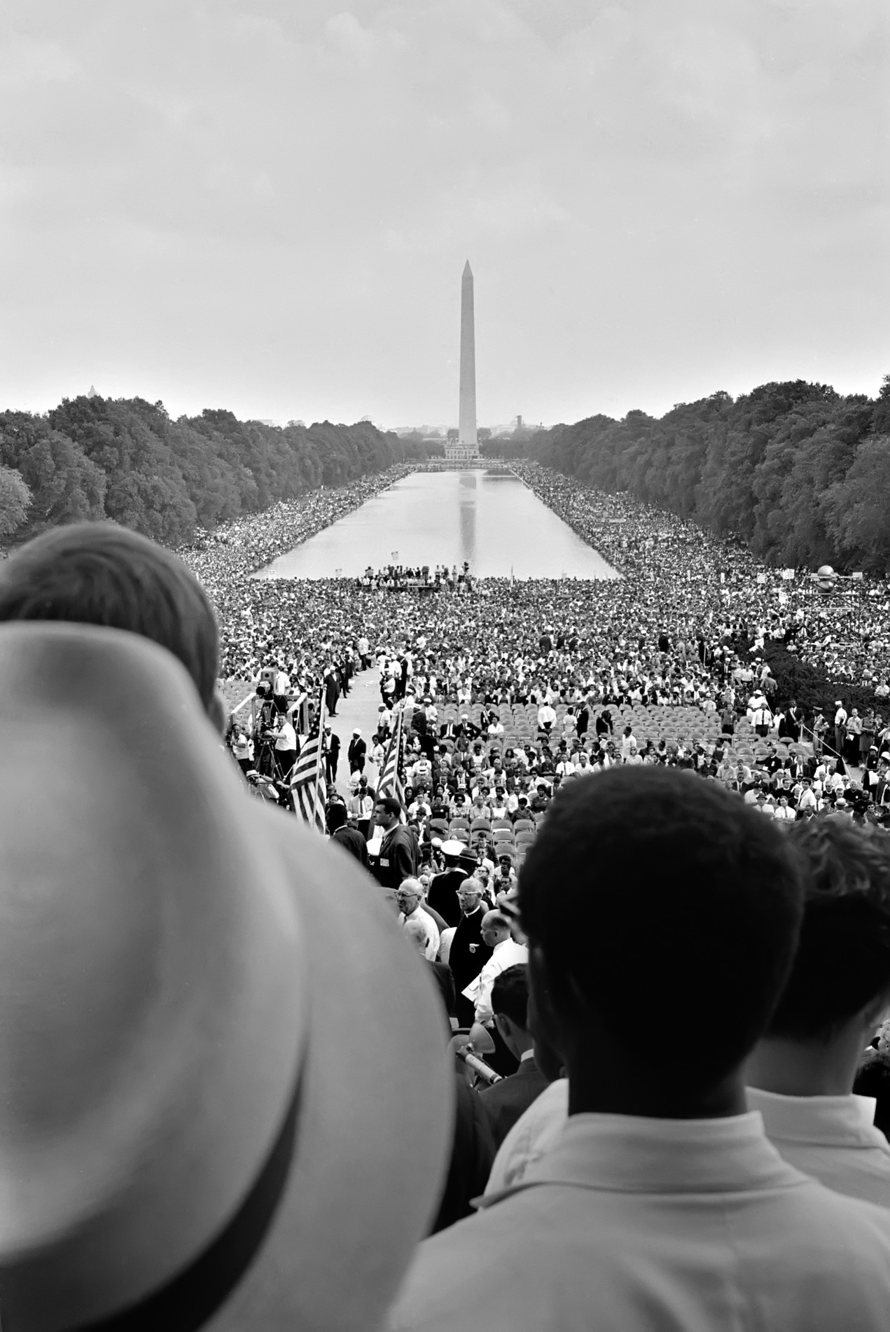 Crowds surrounding the Reflecting Pool, during the 1963 March on Washington.